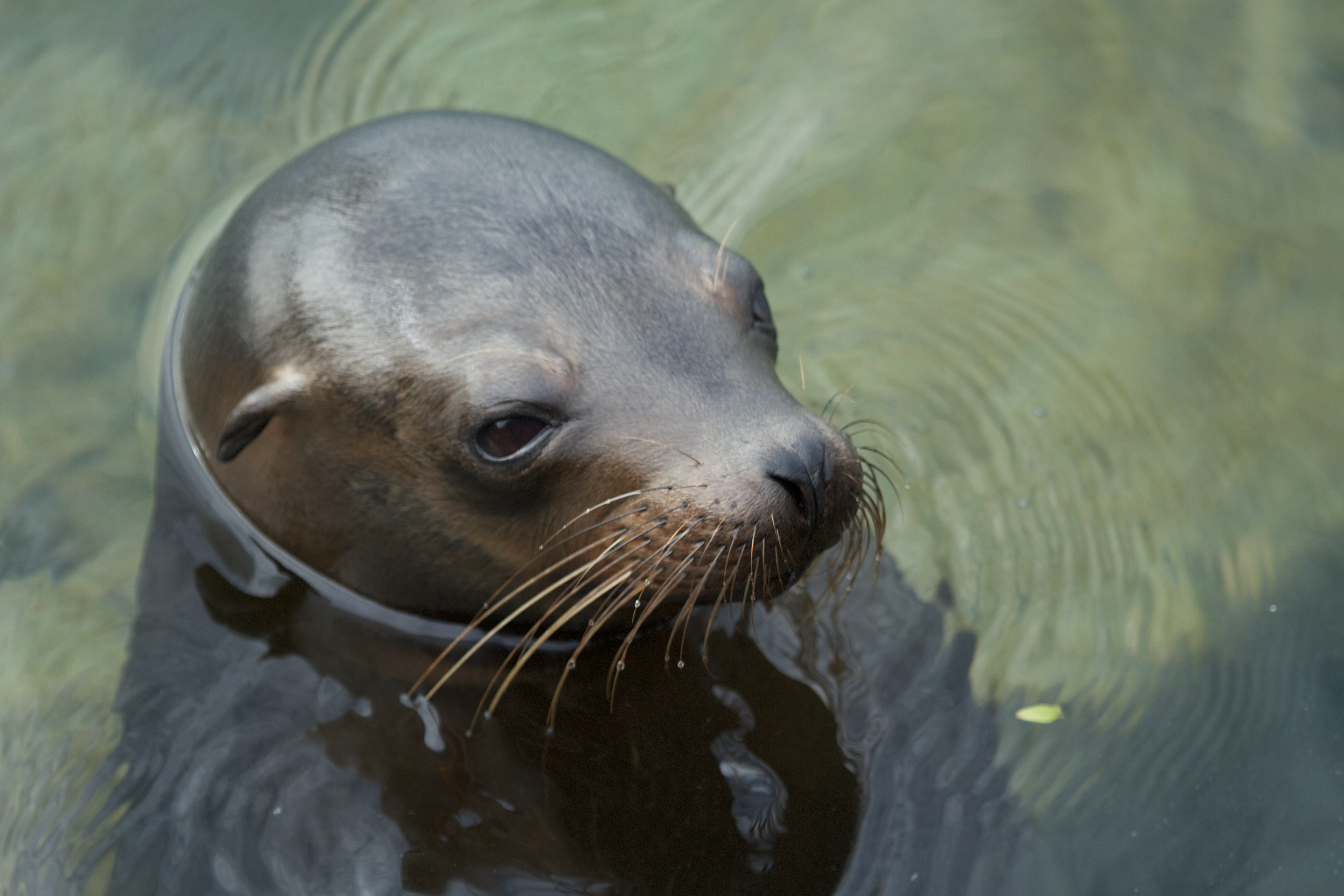 Zalophus wollebaeki, Galapagos